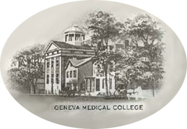 Artwork from a Geneva Medical College brochure